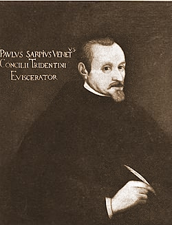 Portrait of Paolo Sarpi, Oxford, Bodleian Library